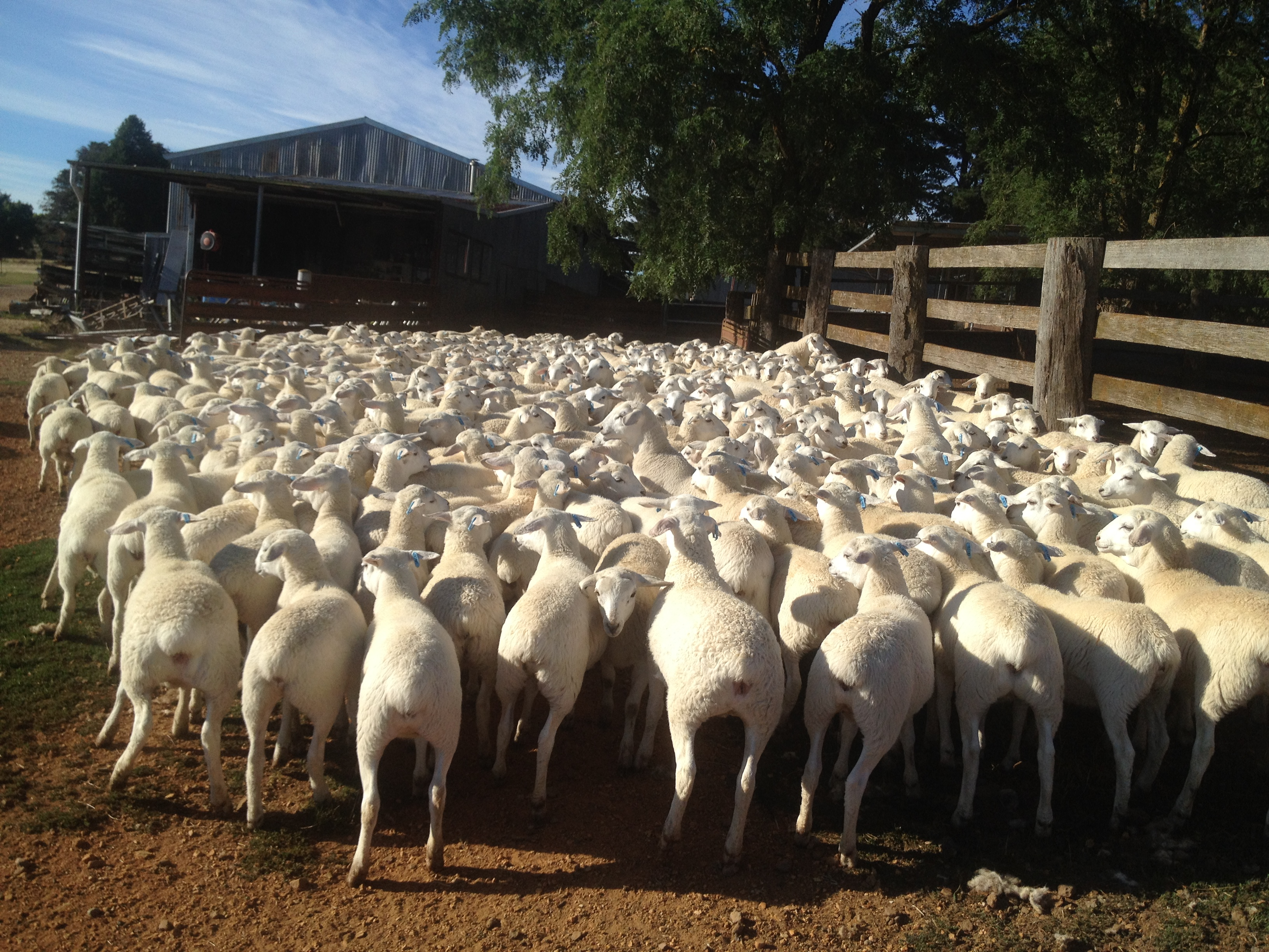 Young Group Of Australian White Ewe Lambs